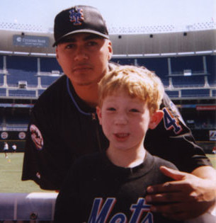 Jaime Cerda of the New York Mets poses for a photo with a young fan.